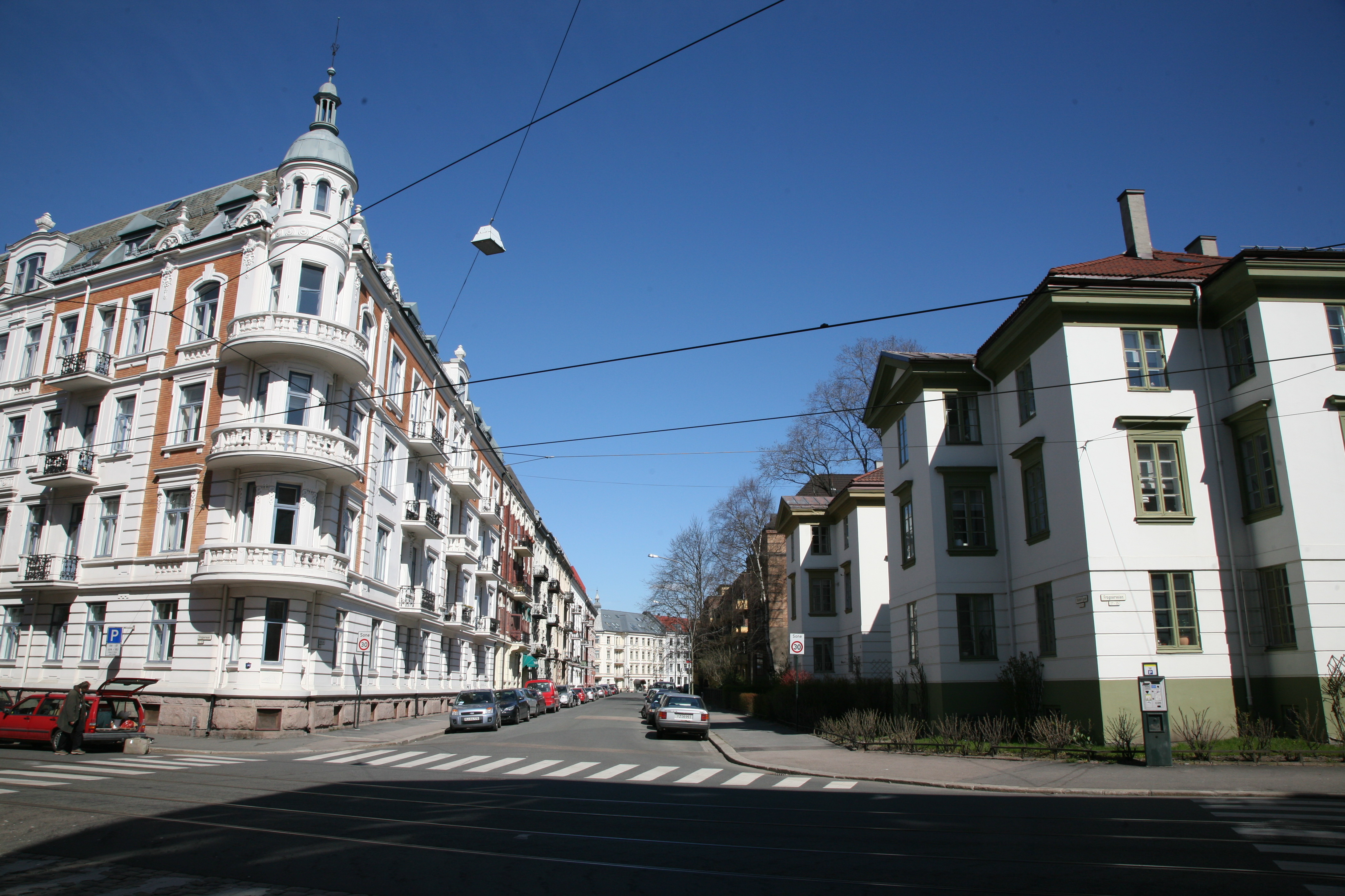 From Balders gate in Oslo, Norway. The building to the left is Frognerveien 29.